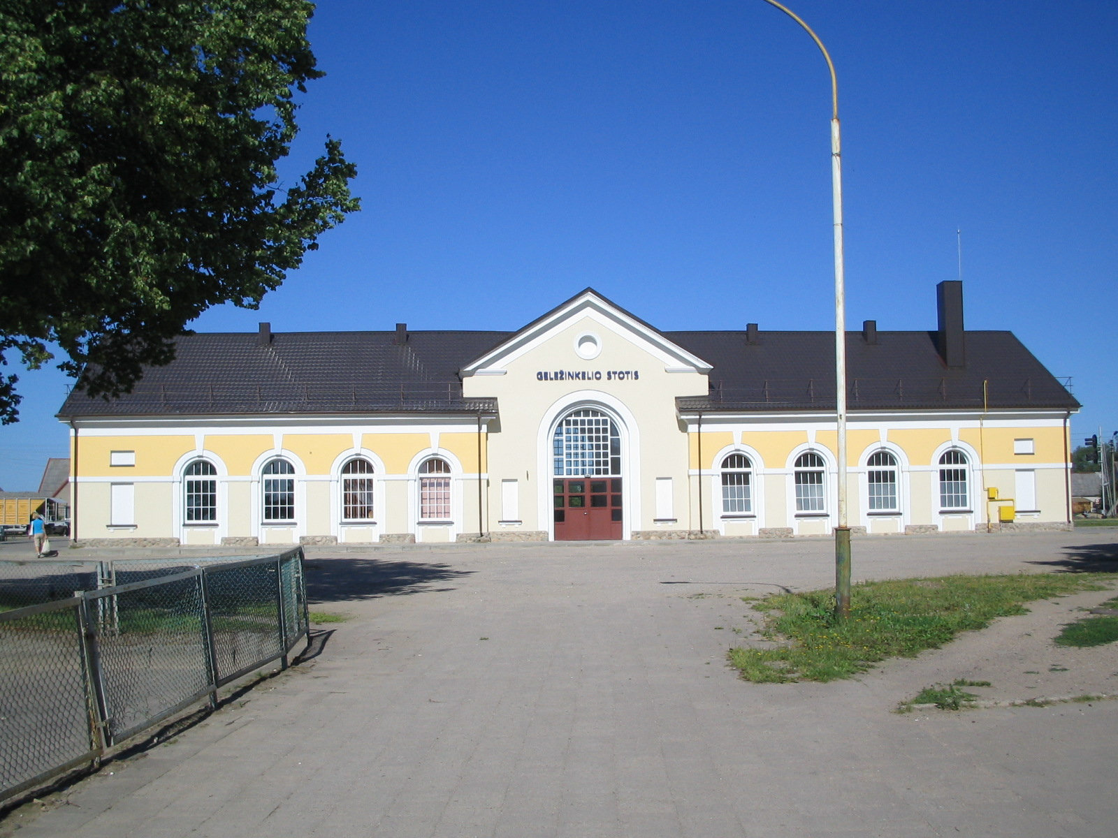 Kretinga train station.